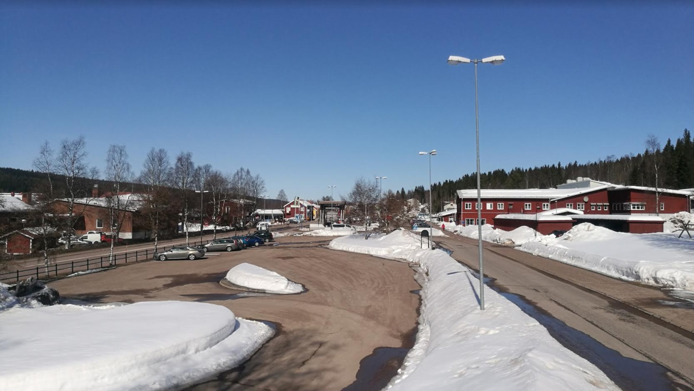 View of central Sälen